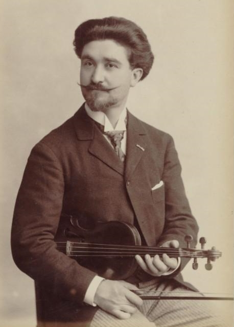 Belgian violinist Guillame Remy (1856-1923).